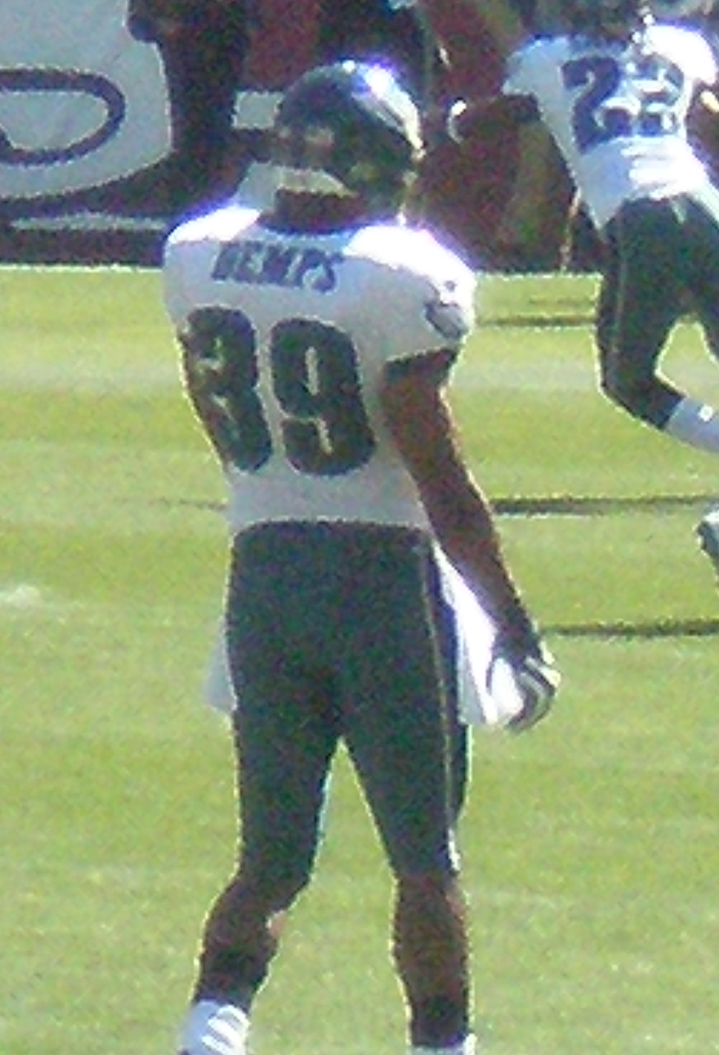 Philadelphia Eagles safety Quintin Demps warming up on Bill Walsh Field at Candlestick Park prior to a regular season game against the San Francisco 49ers. The Eagles won 40-26.